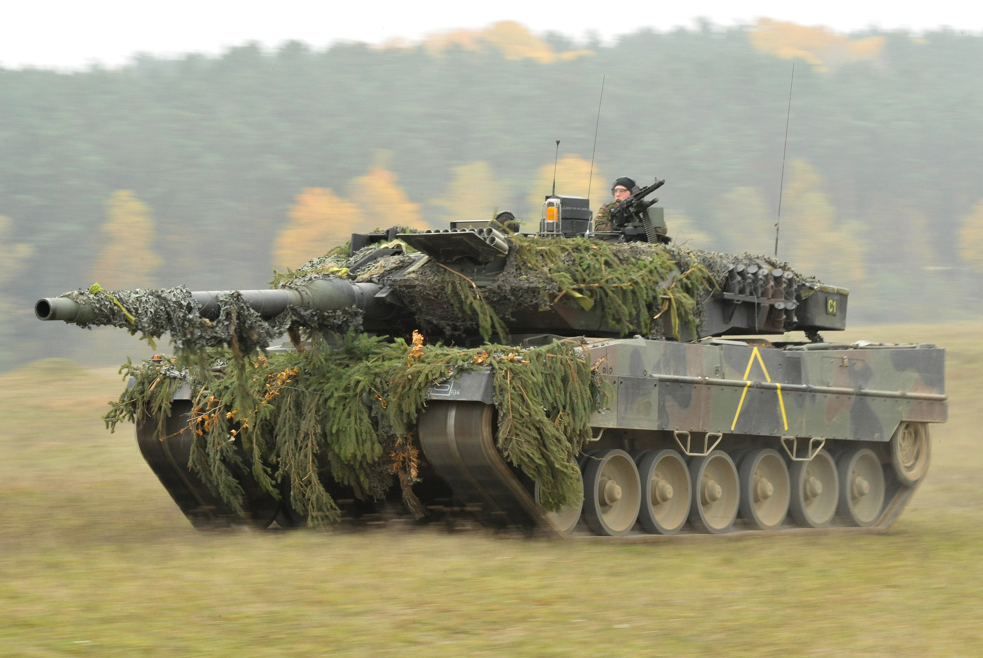 A German Army Leopard 2 tank, assigned to 104th Panzer Battalion, moves through the Joint Multinational Readiness Center during Saber Junction 2012 in Hohenfels, Germany, Oct. 25. The U.S. Army Europe's exercise Saber Junction trains U.S. personnel and 1800 multinational partners from 18 nations ensuring multinational interoperability and an agile, ready coalition force.